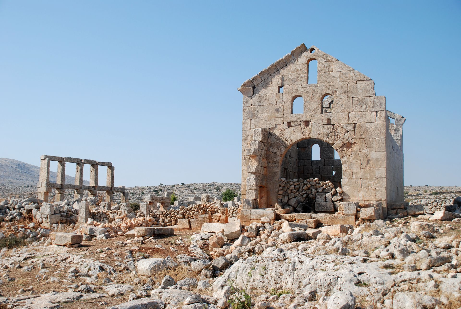 Sitt er-Rum, near Church of Saint Simeon Stylites, Syria. Church from east